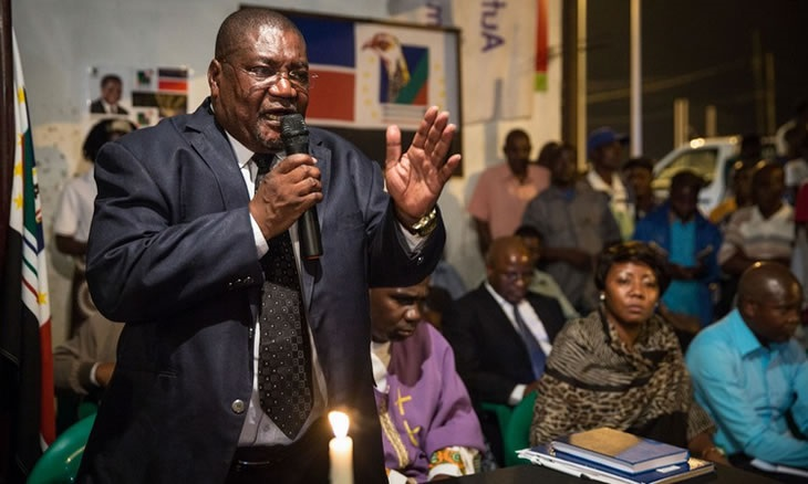 Ossufo Momade, RENAMO leader